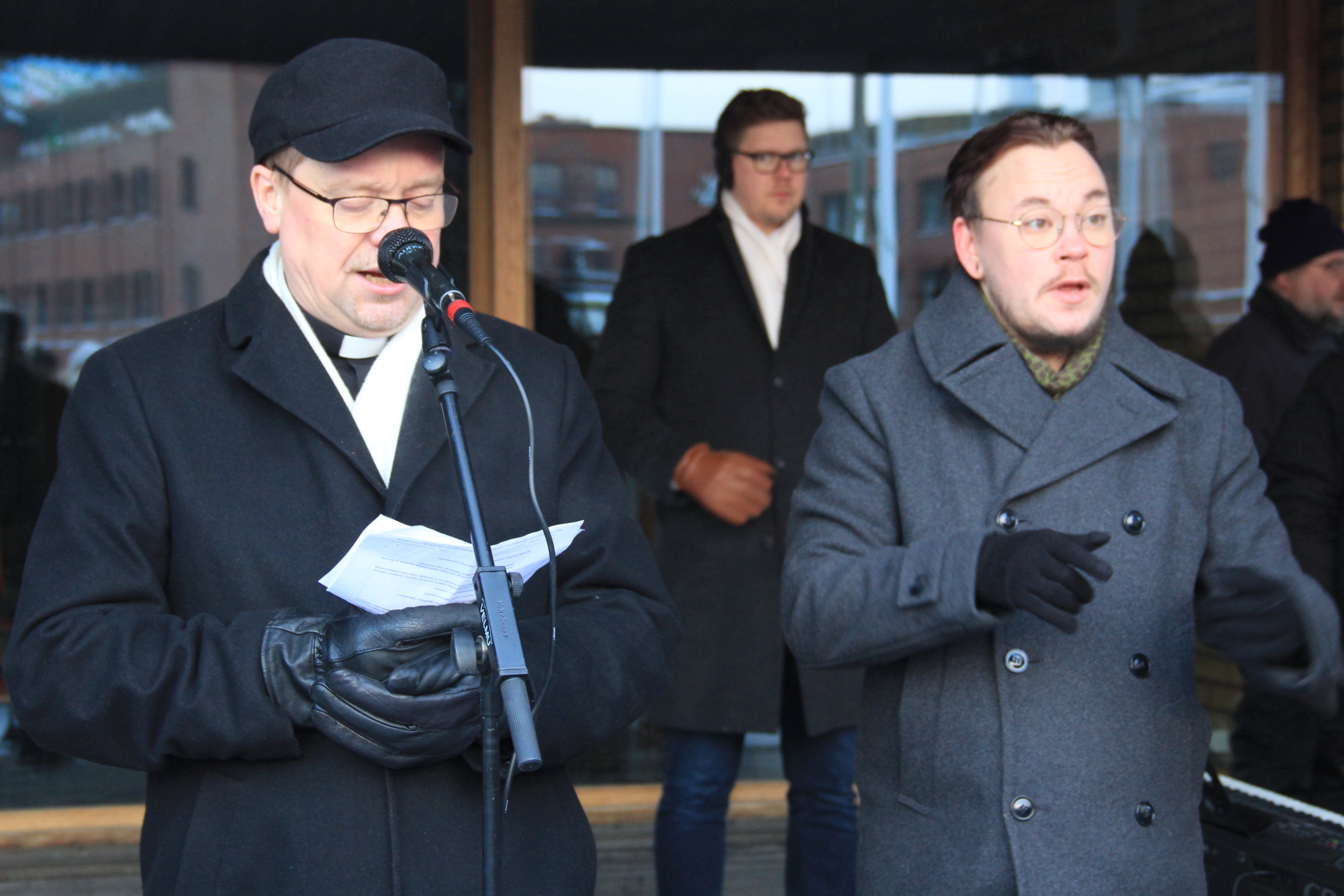 Declaration of Christmas Peace in 2018 in Vantaa, Finland. -Opening of the ceremony. Left to right: Pastor Jaakko Hyttinen from Tikkurila Parish, The chairman of Vantaa City Council Mr. Antti Lindtman and sign language interpretor.